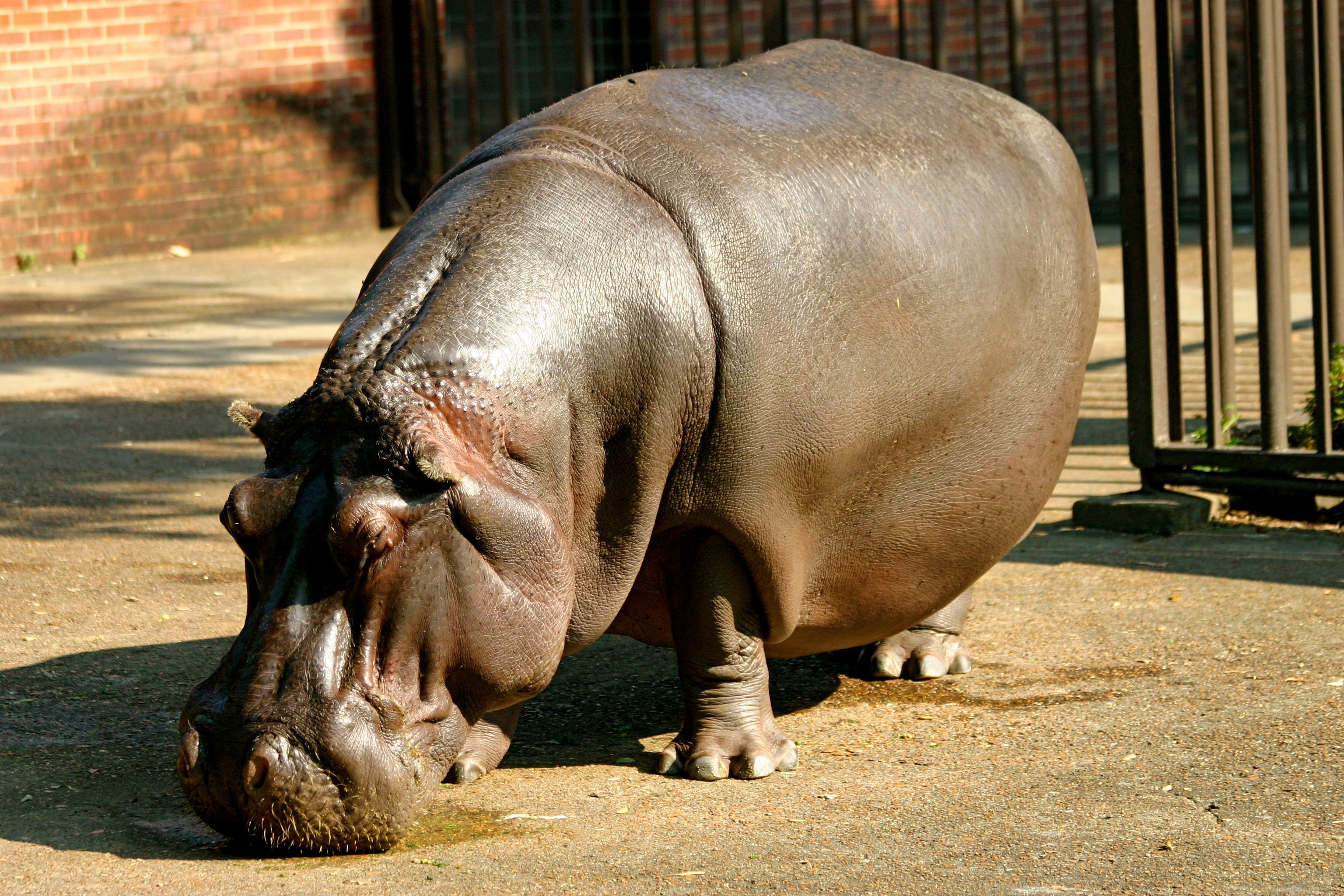 A hippo at the Memphis Zoo.